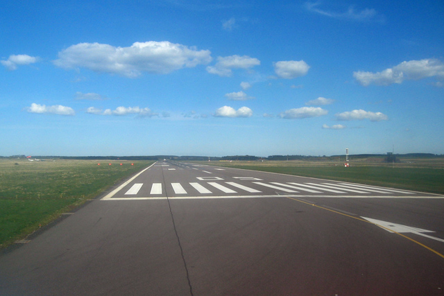 Runway 05 at Inverness Airport